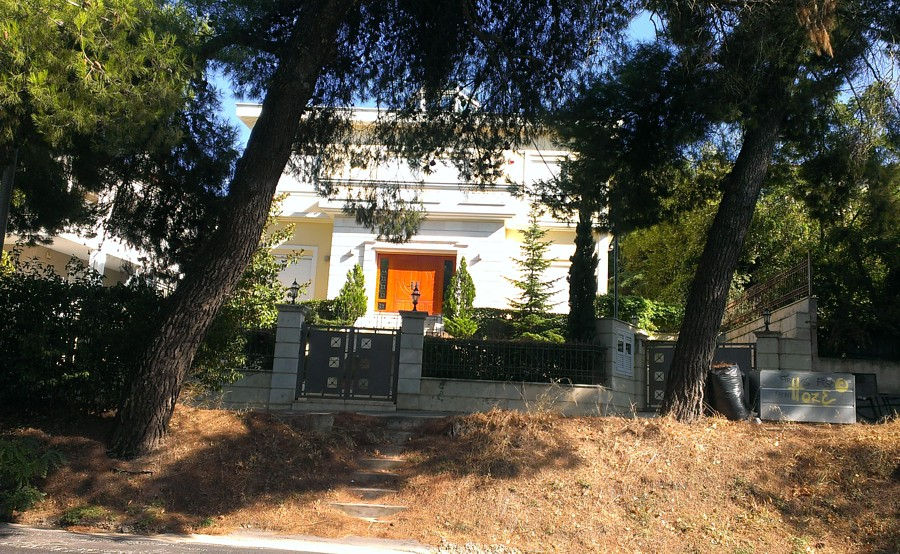 ekali